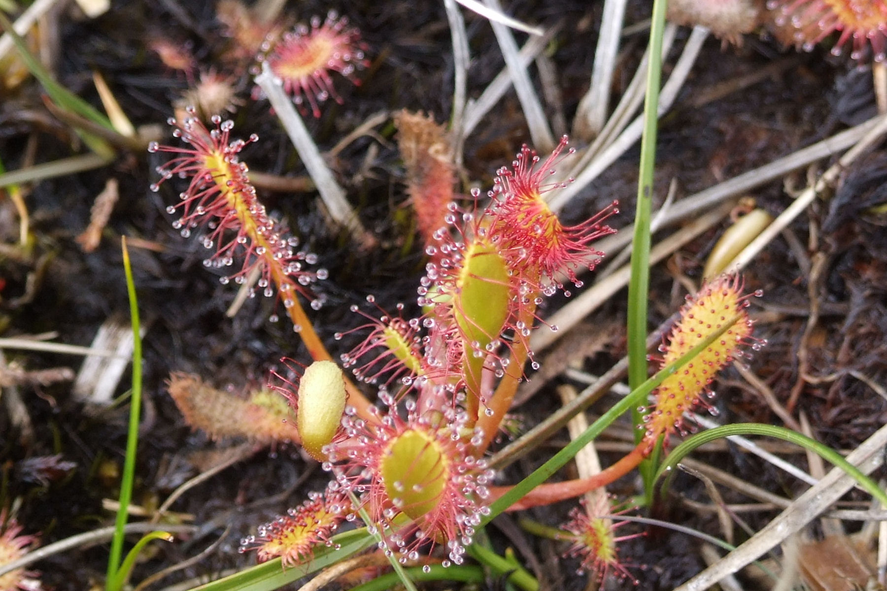 Drosera anglica, Hebridean Sundew, shot near Valtos, Isle of Lewis